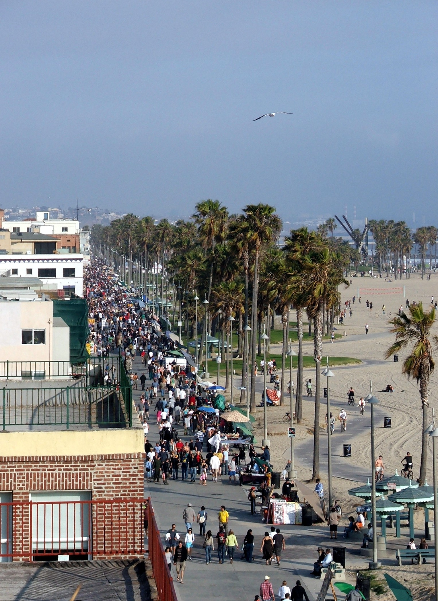 Venice Beach from above